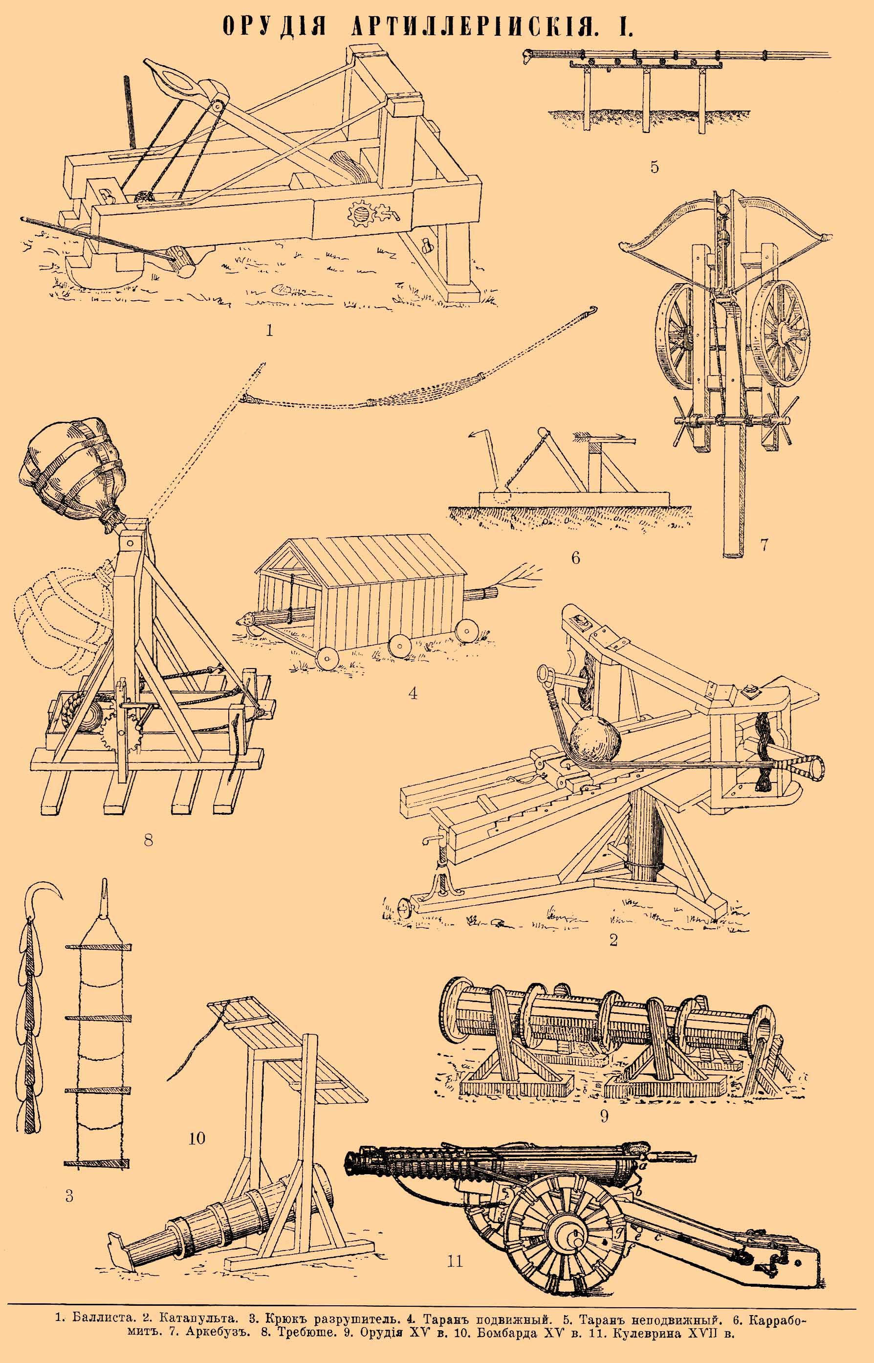 Illustration from Brockhaus and Efron Encyclopedic Dictionary (1890—1907)